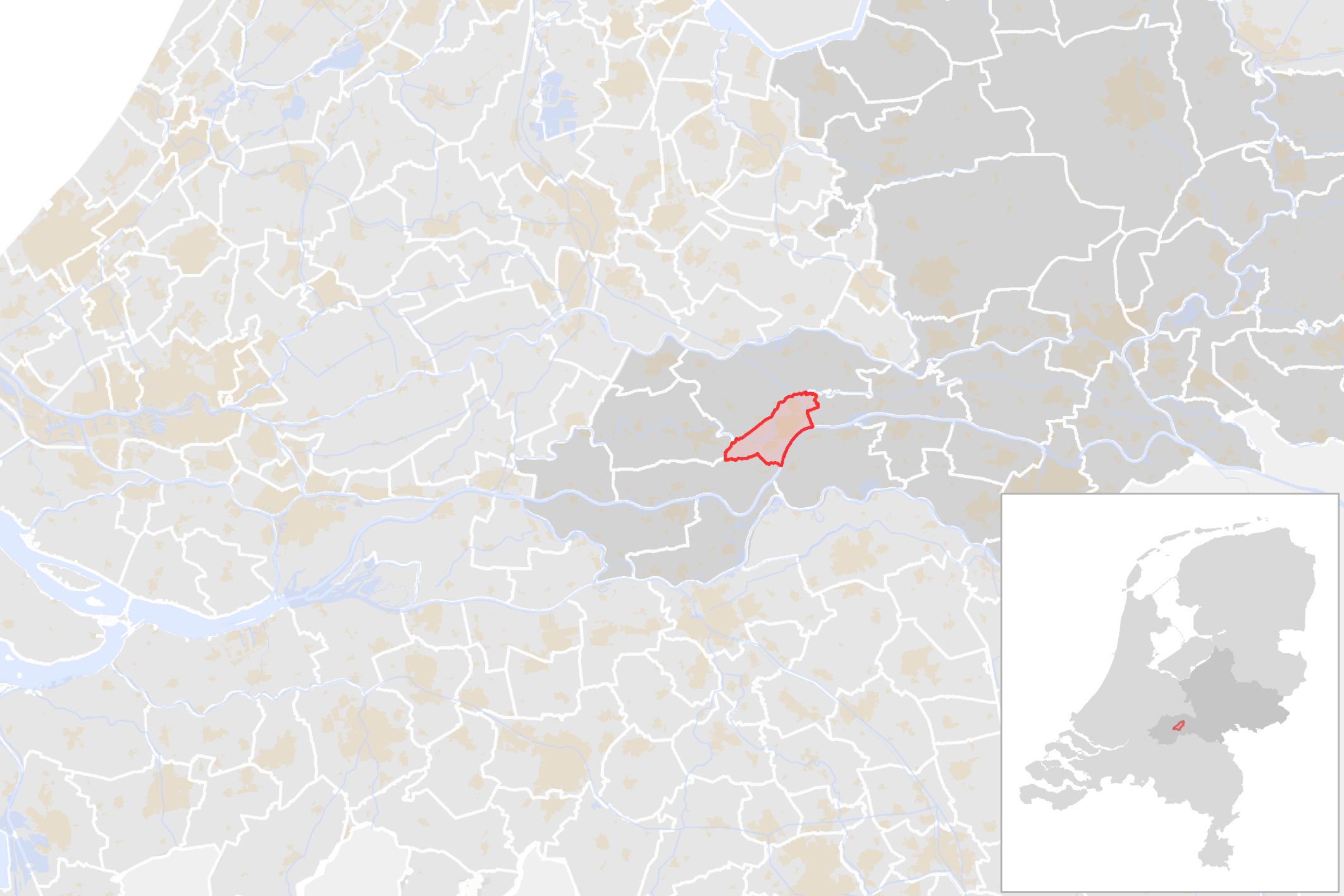 Locator map showing municipality boundary of one of the 390 Dutch municipalities (as of 2016)